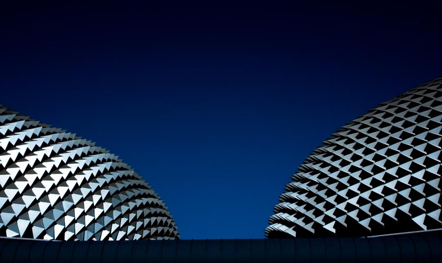 Shot of the exterior of Esplanade's two iconic structure